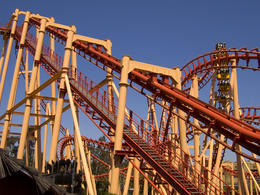 Good coaster but a bit bumpy